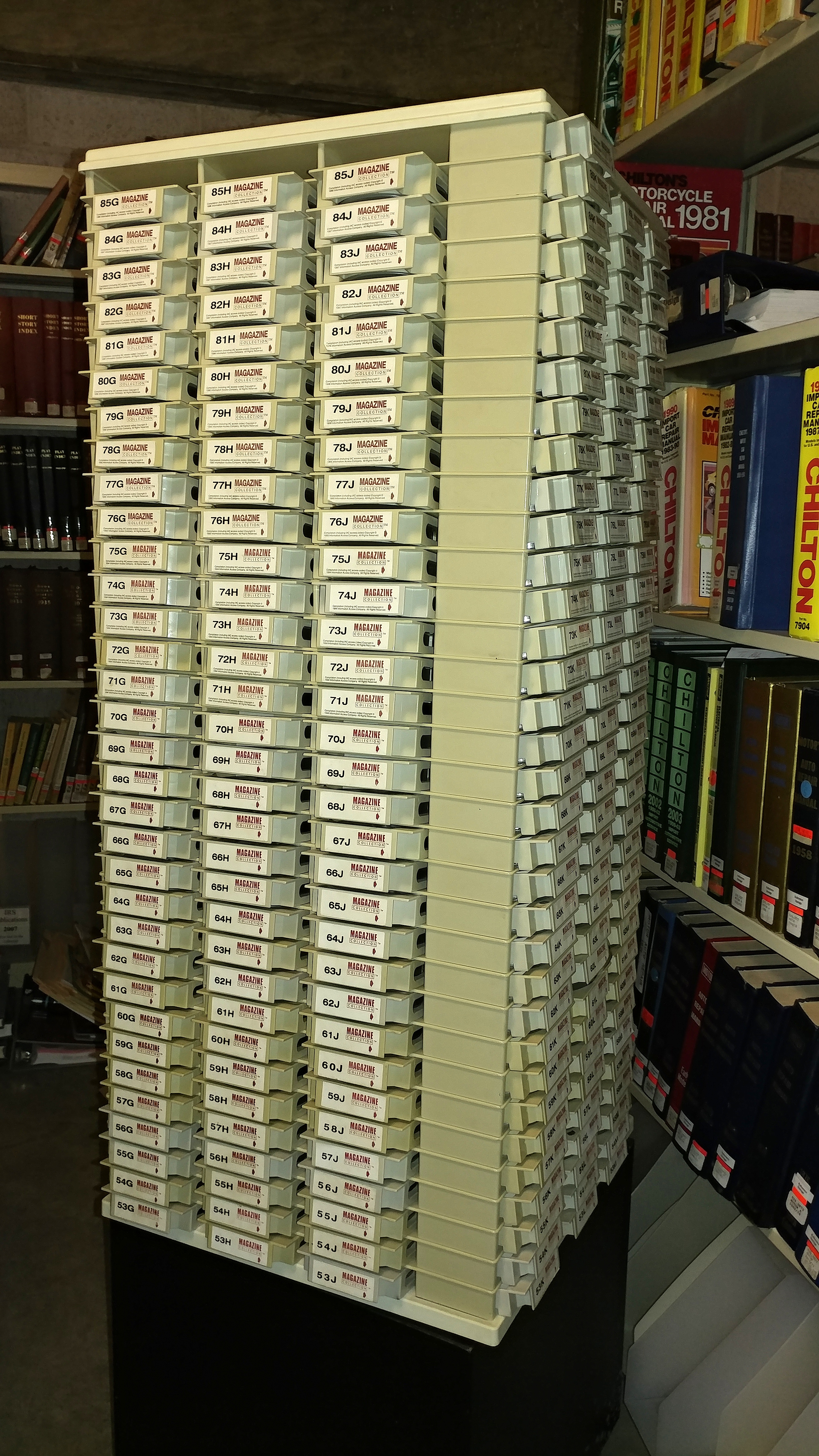 Rotating InfoTrac carousels held hundreds of microfilm cartridges.